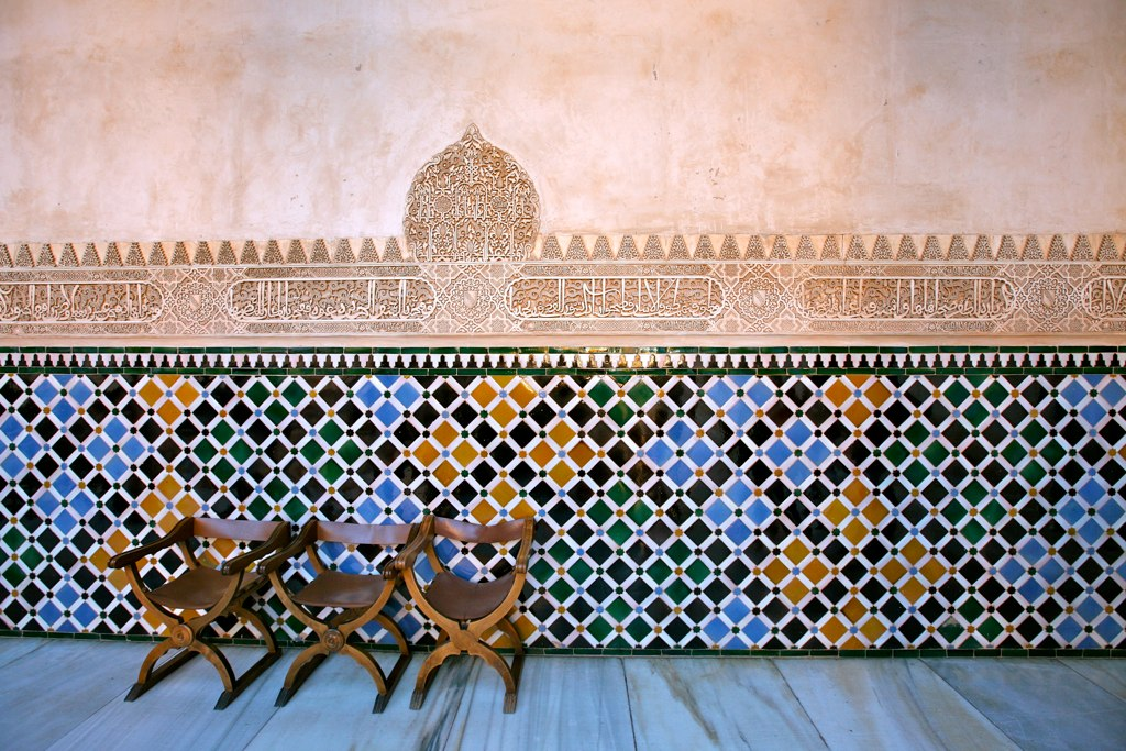 The Three Chairs